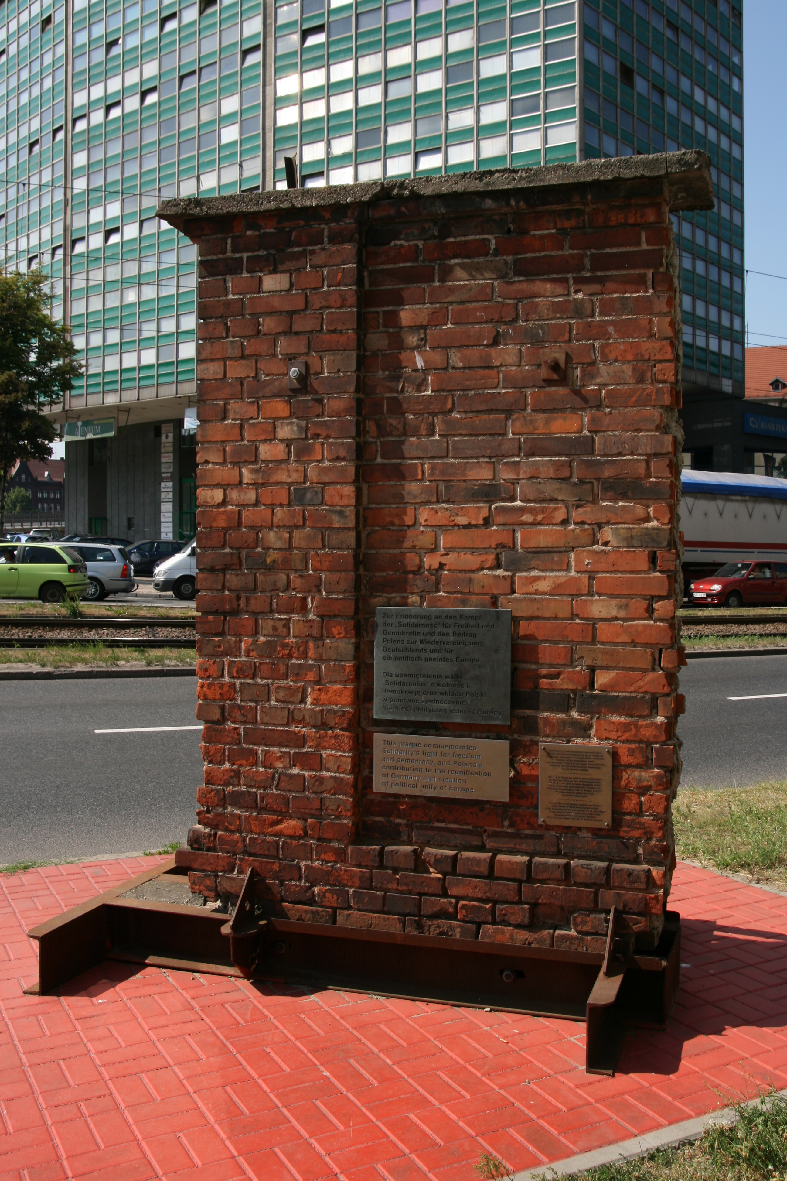 "This plague commemorates Solidarity's fight for freedom and democraty, and Poland's contribution to the renunification of Germany and creation of political unity of Europe"